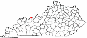 Adapted from Wikipedia's KY county maps.